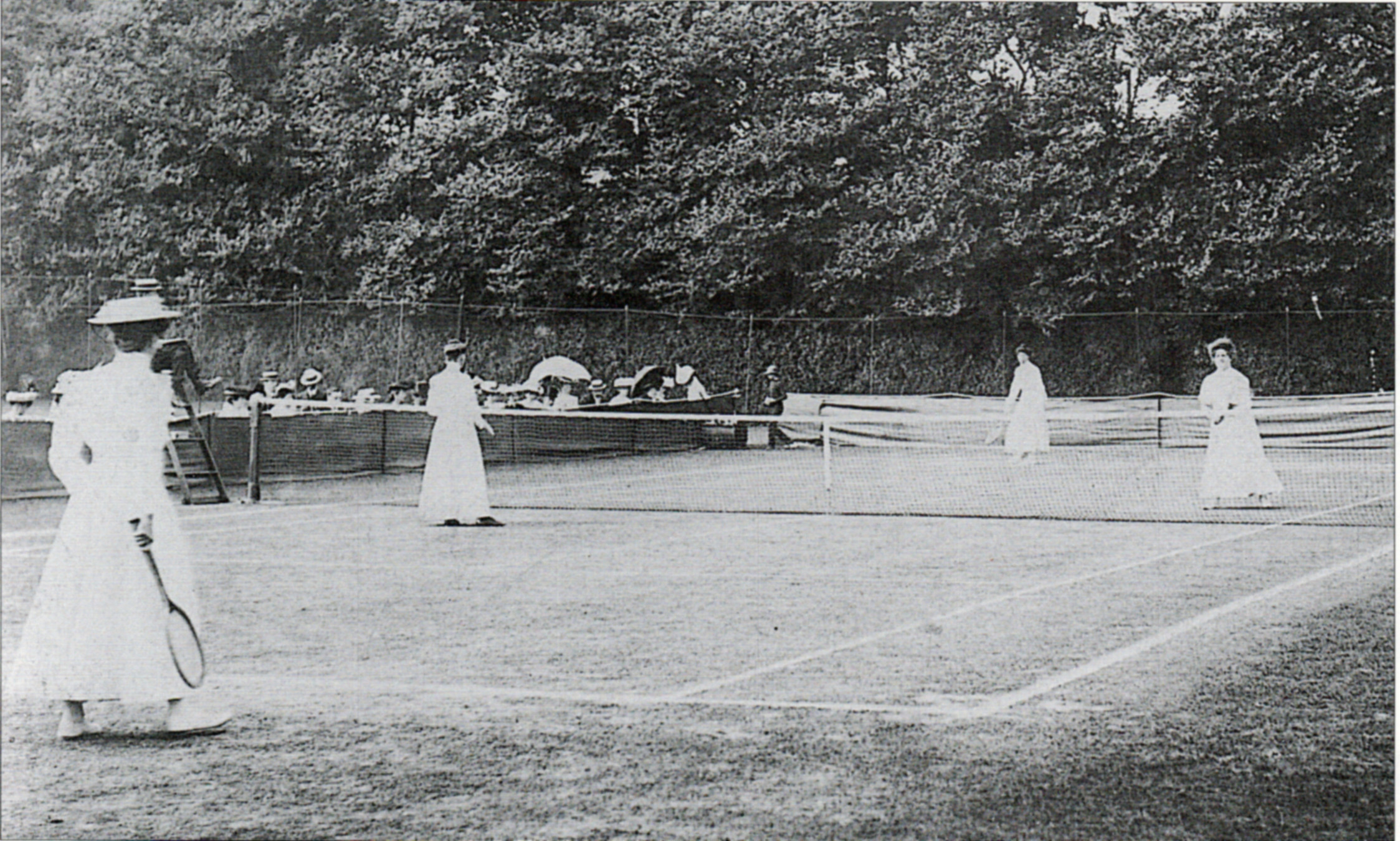 Ladies' doubles final at Wimbledon 1906, depicted persons: Blanche Bingley-Hillyard (1863-1946) and May Sutton (1886-1975) Charlotte Cooper-Sterry (1870-1966) and Agnes Morton (1872-1952) The ladies' doubles competition at Wimbledon didn't attain full championship status until 1913.